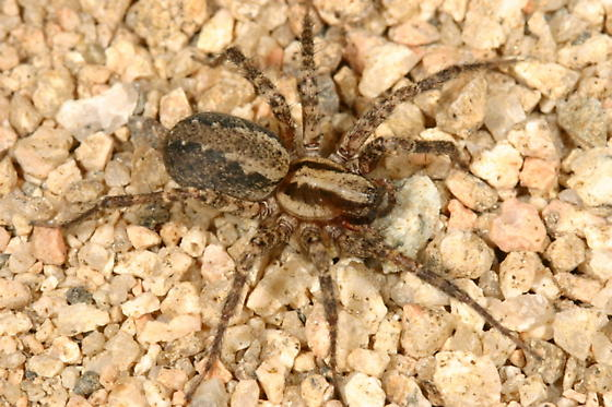 Hololena santana Found in Anaheim, Orange County, California, USA on September 28, 2005